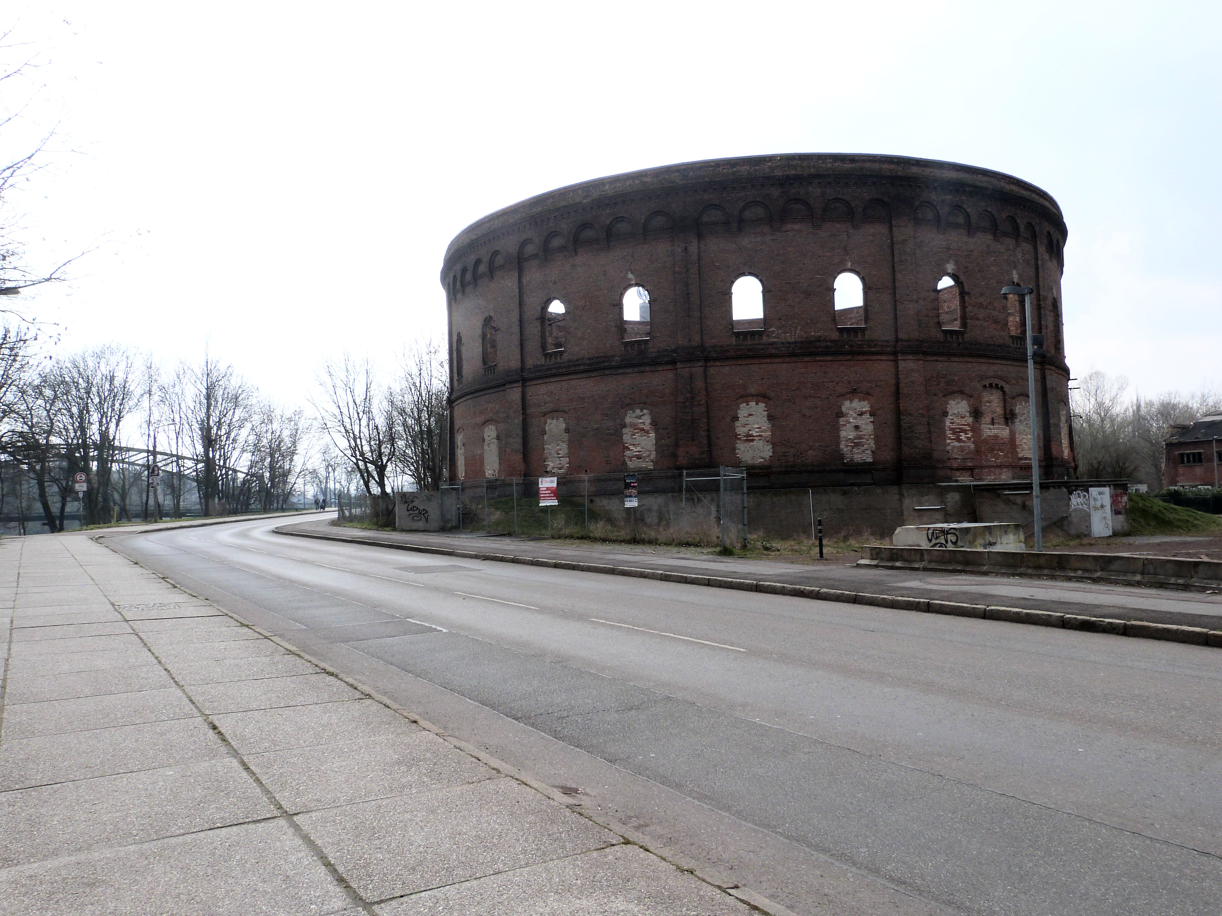 Street Holzplatz with the gasometer from 1891, Halle (Saale)